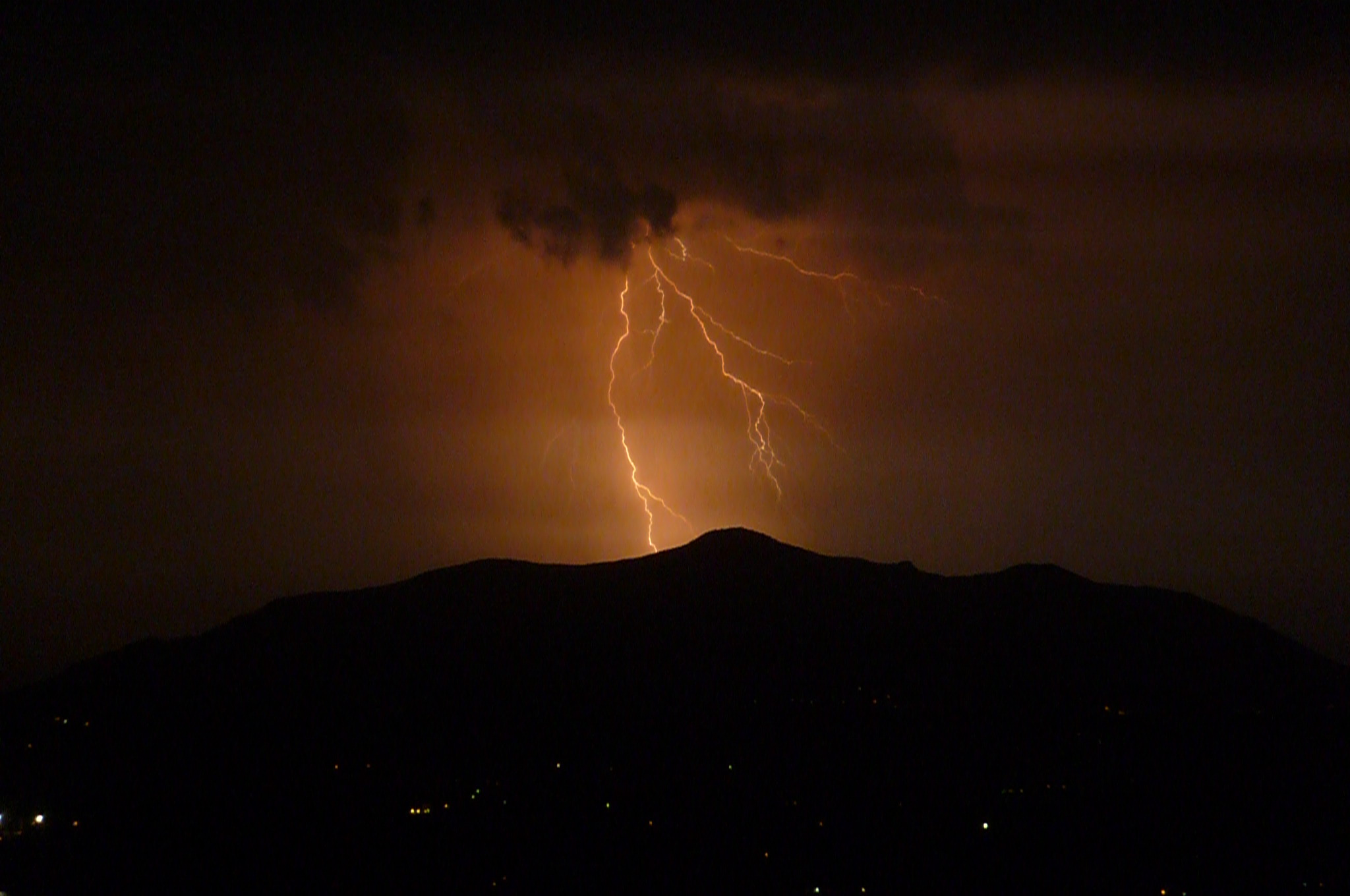 Thunderstorm over Corfu - Lightning Strikes.